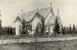 Korpiselkä lutheran church